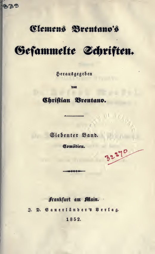 Title page